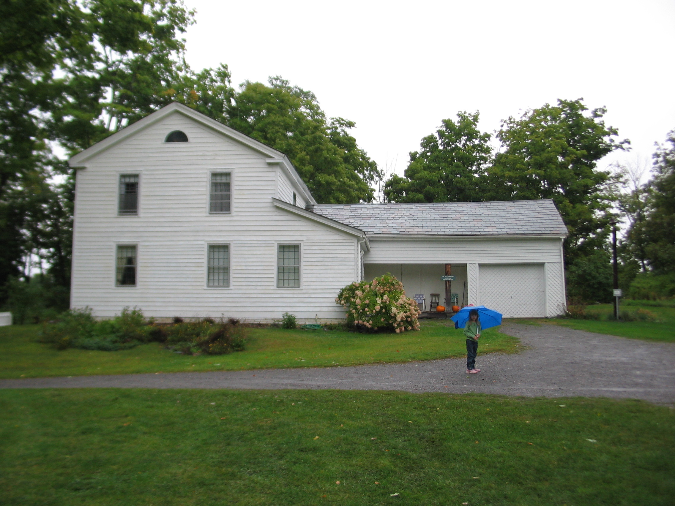 The Home of Captain William Miller, the Baptist preacher credited with starting the Adventist Movement in the 19th century. It is located in Whitehall, NY.